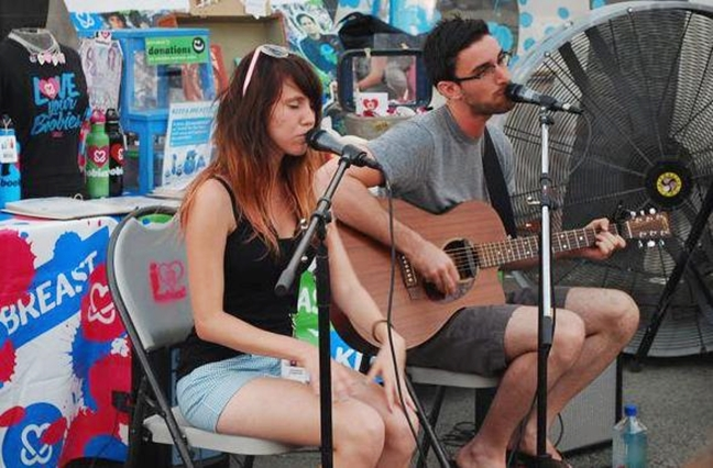 The Narrative on Keep A Breast performance at Warped Tour 2011